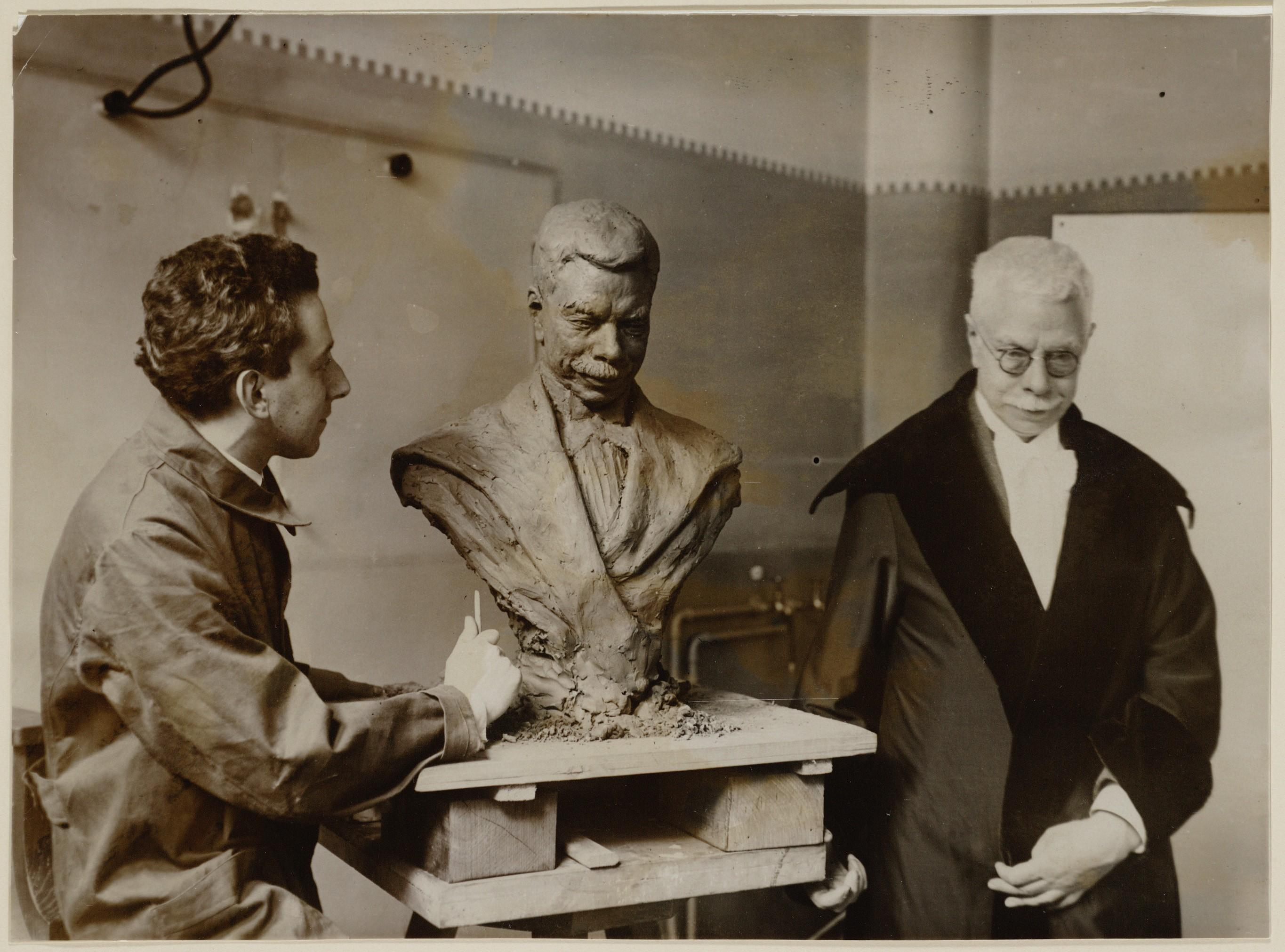 Photograph of sculptor Jobs Wertheim and physicist Pieter Zeeman